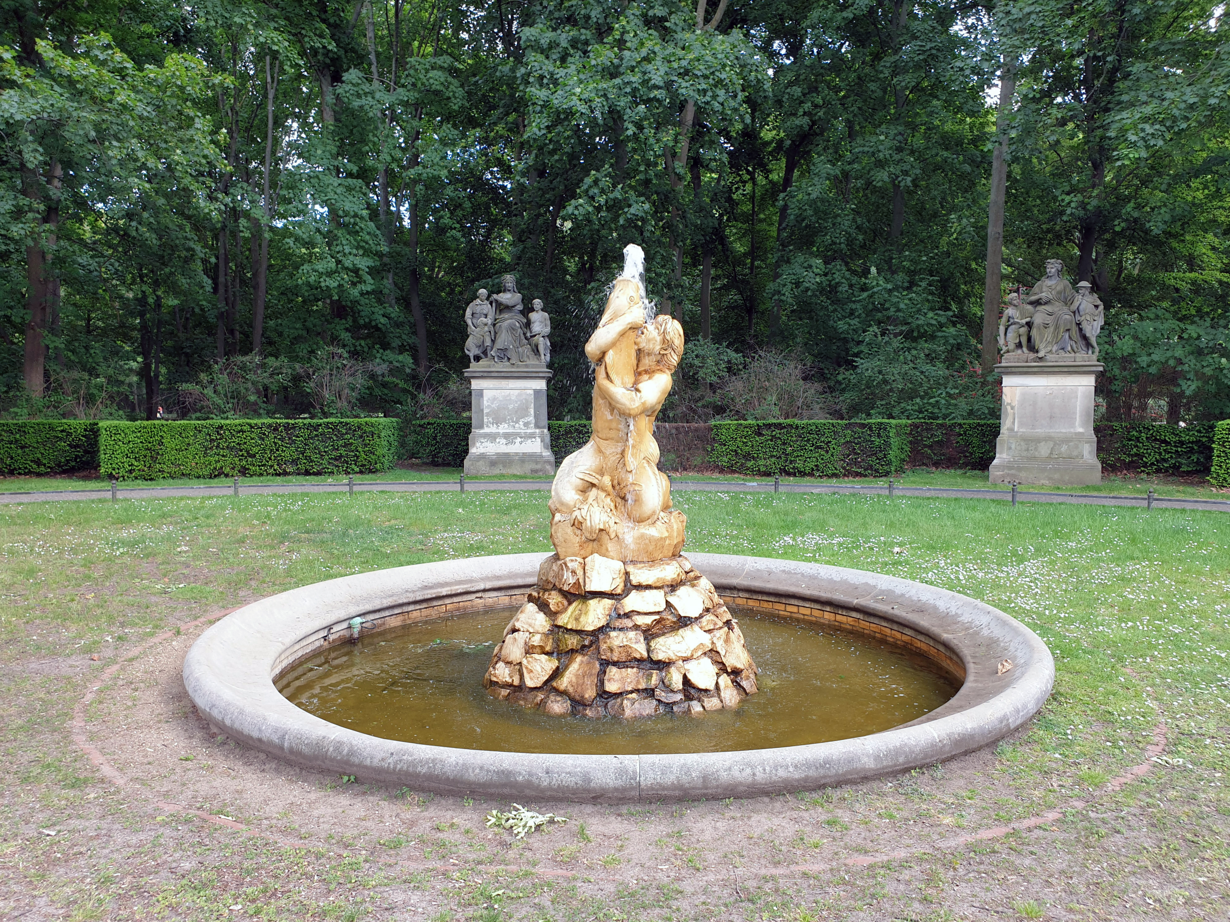 Fountain,"Tritonbrunnen" by Josef von Kopf, 1888, Großfürstenplatz, Berlin-Tiergarten, Germany